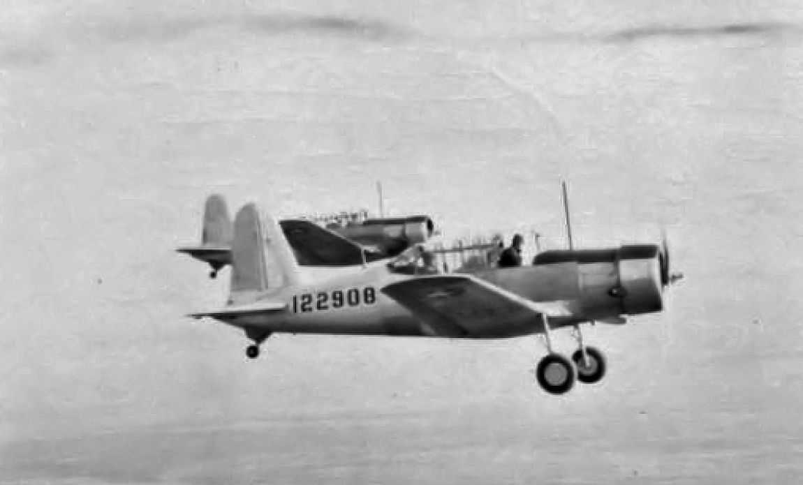 Pecos Army Airfield - Vultee BT-13 in a Two-Ship Formation